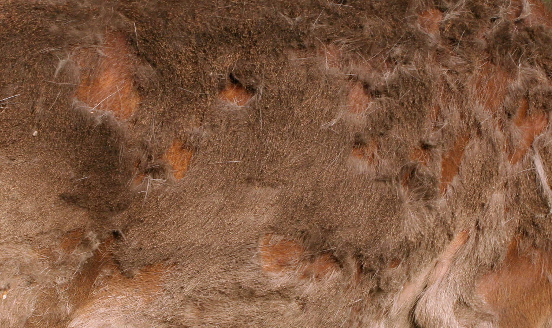 The moose in Białowieża